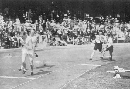 The second semi-final of the men's 4x100 metre relay at the 1912 Summer Olympics. Team Sweden on the left and the Hungarian team on the right.